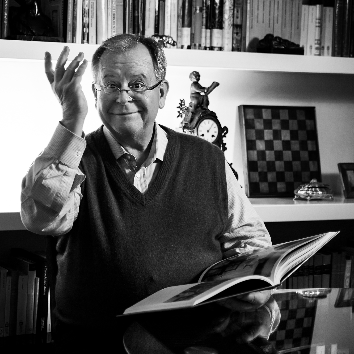 Portrait of Riccardo Peroni